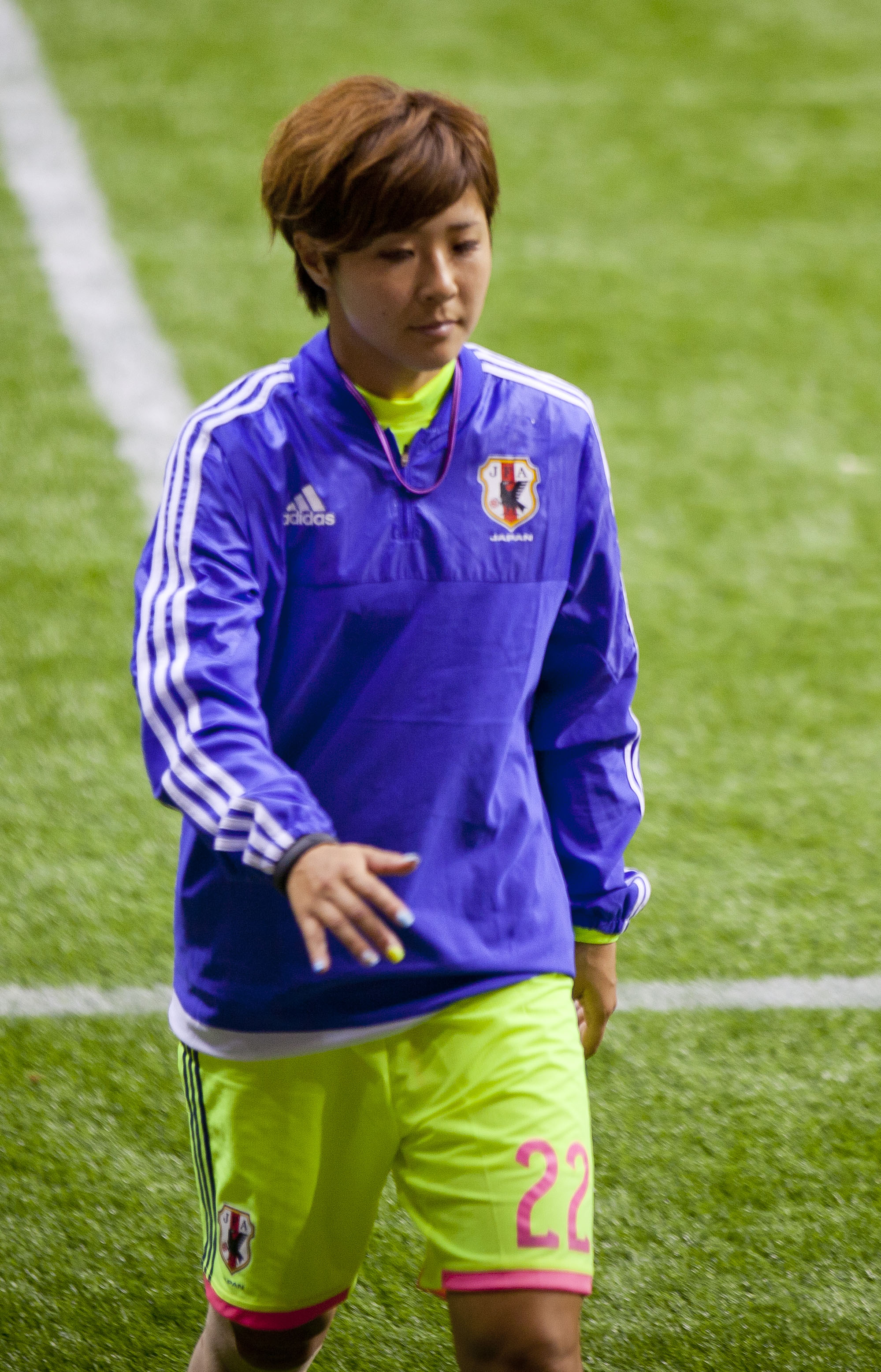 FIFA Women's World Cup Canada June 12th, 2015